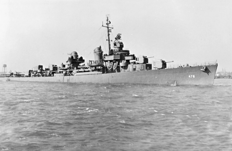 The U.S. Navy destroyer USS Stanly (DD-478) after the aircraft catapult had been removed at the Charleston Naval Shipyard, South Carolina (USA), on 16 February 1943. At this time she had the non-standard armament configuration with five 127mm/38 guns, one twin 40mm gun mount on the fantail and nine 20mm guns.